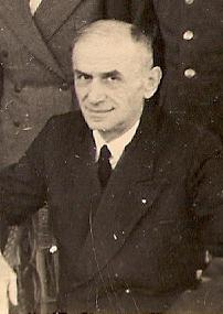 Anastas Frasheri